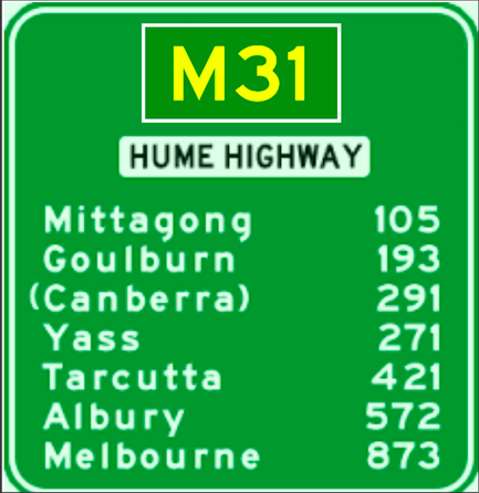 Current Destination Sign on the Hume Highway heading Melbourne from Sydney.jpg